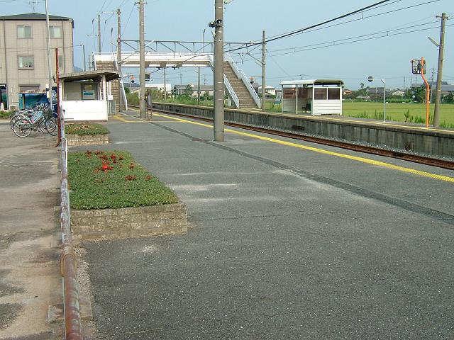 The station platforms of Hazakawa Station